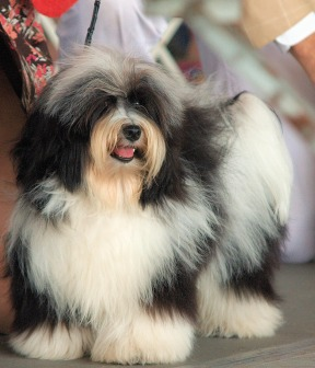 Havanese in untrimmed coat cd1